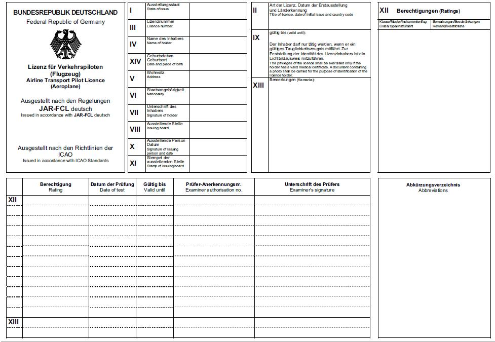 ATPL(A) Licence